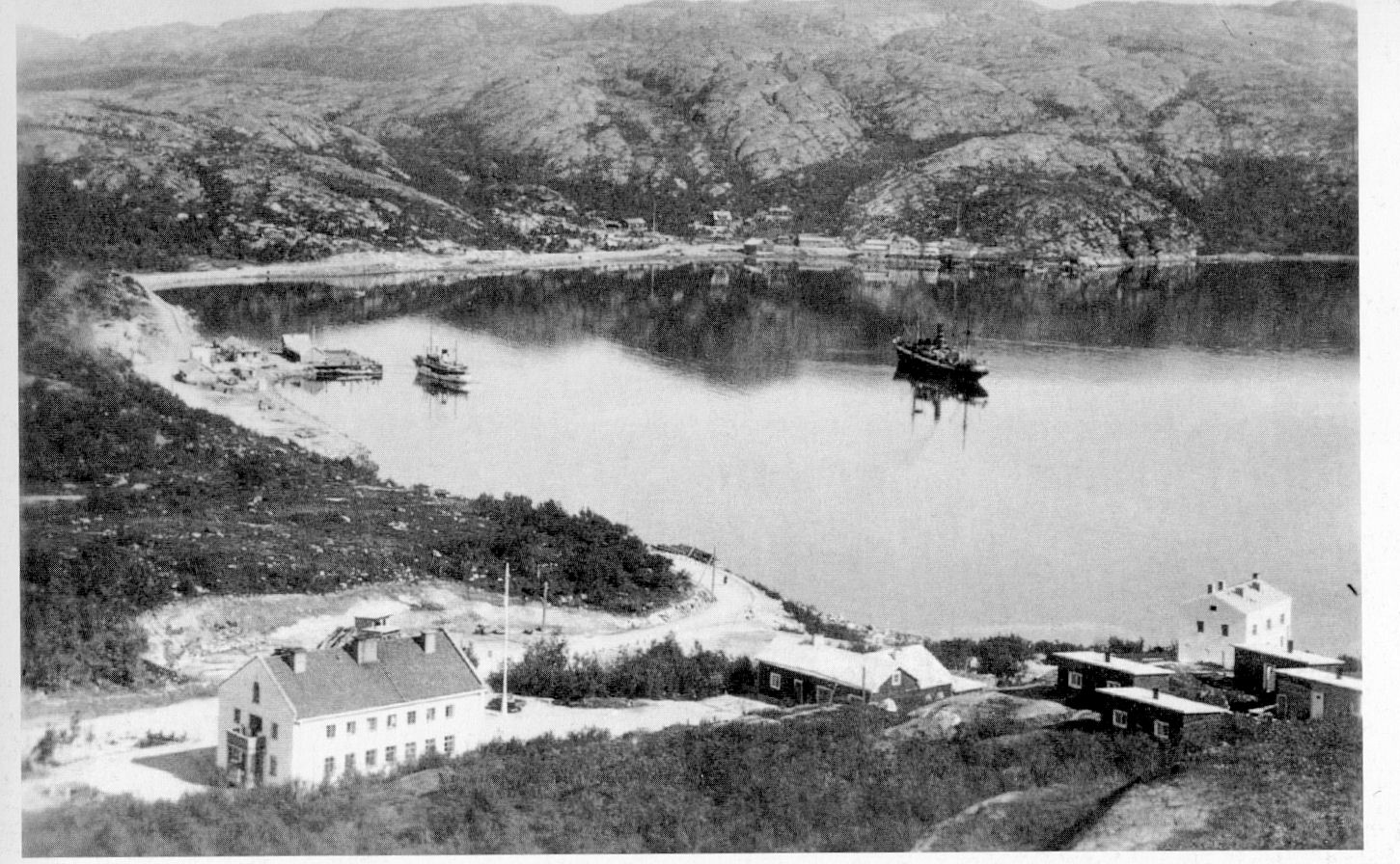 Harbour of Linakhamari in Petsamo, Finland during the 1930s.